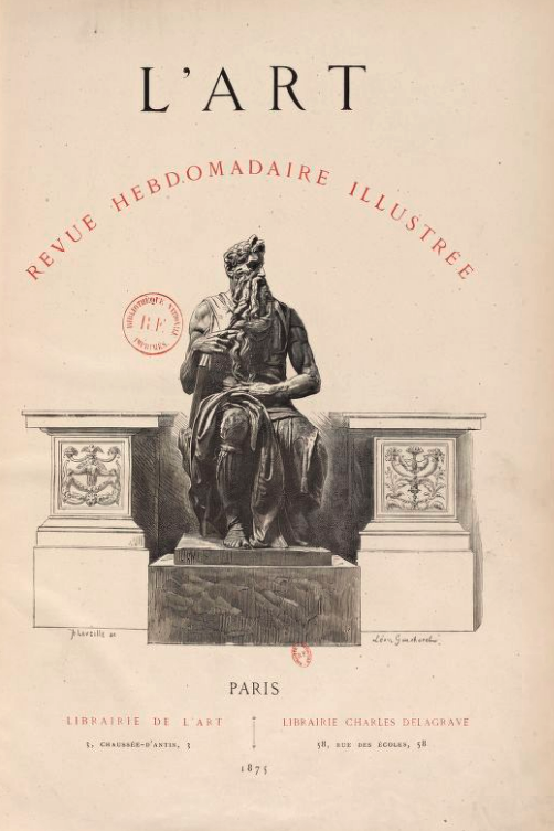 Front page for L'Art, revue hebdomadaire illustrée, volume 01 cover edition [Jan.-April 1875], published by La Librairie de l'art / Charles Delagrave.